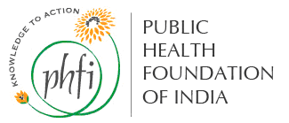 This is the Logo of the Public Health Foundation of India which shows its motto, knowledge to action forming the bridge between a bud and a flower.